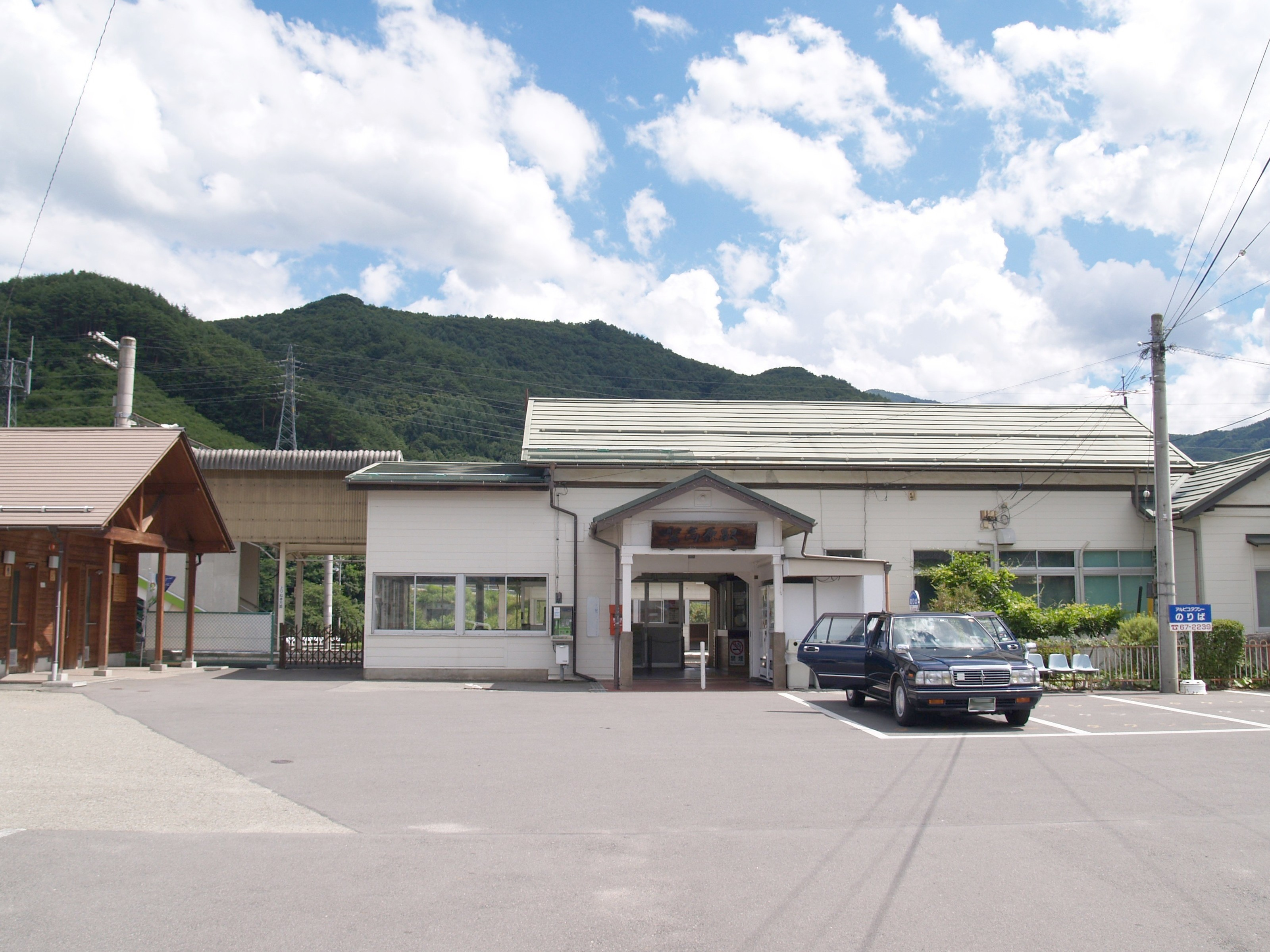 Hijirikogen Station